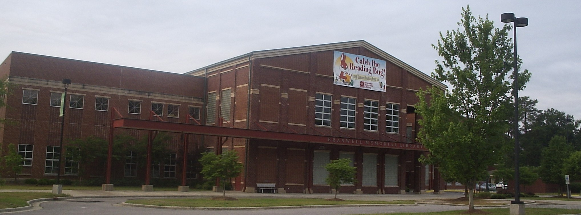 Braswell Memorial Library, 727 North Grace Street, downtown in Rocky Mount, North Carolina.